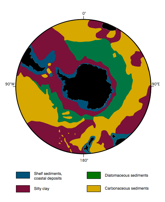 Distribution of principal sediment types around Antarctica in the Southern Ocean